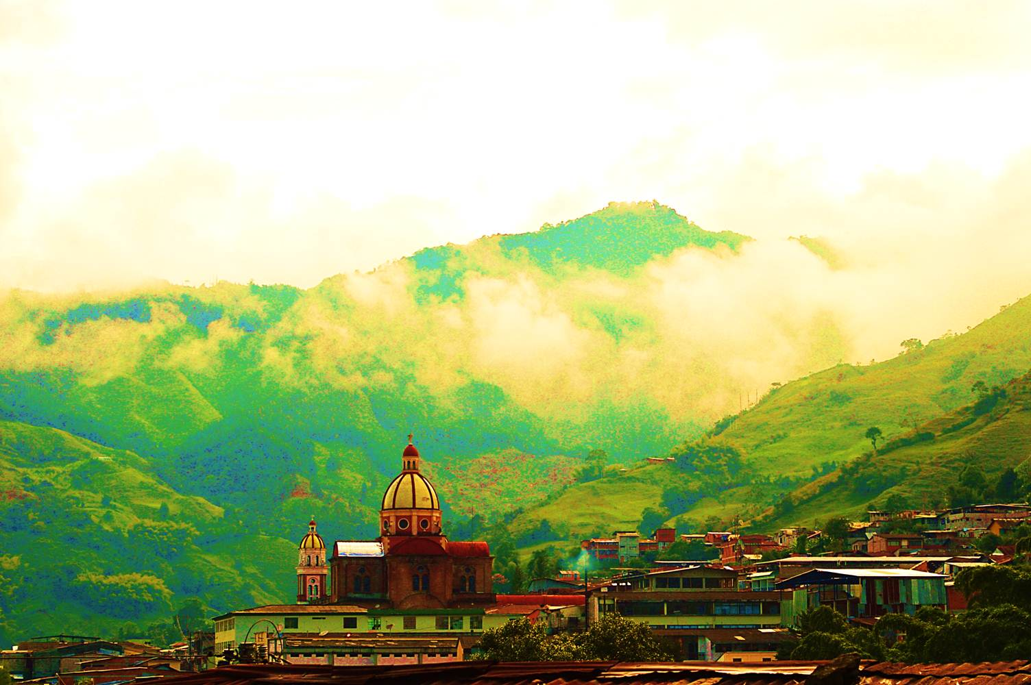 Jhoan Sebastian Escobar Castro